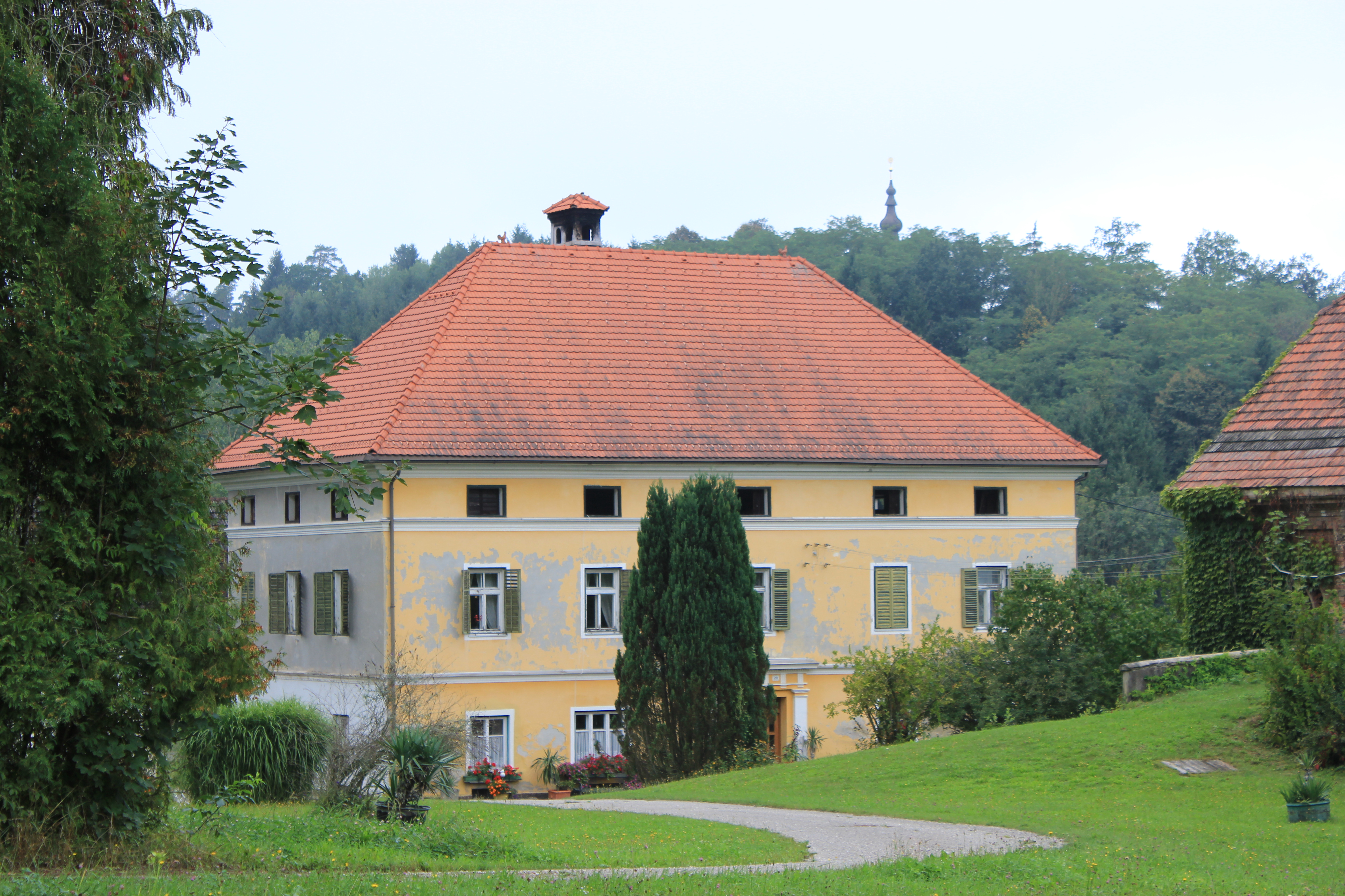 Pregelhof in Oberdorf near Neuhaus/Suha, Carinthia